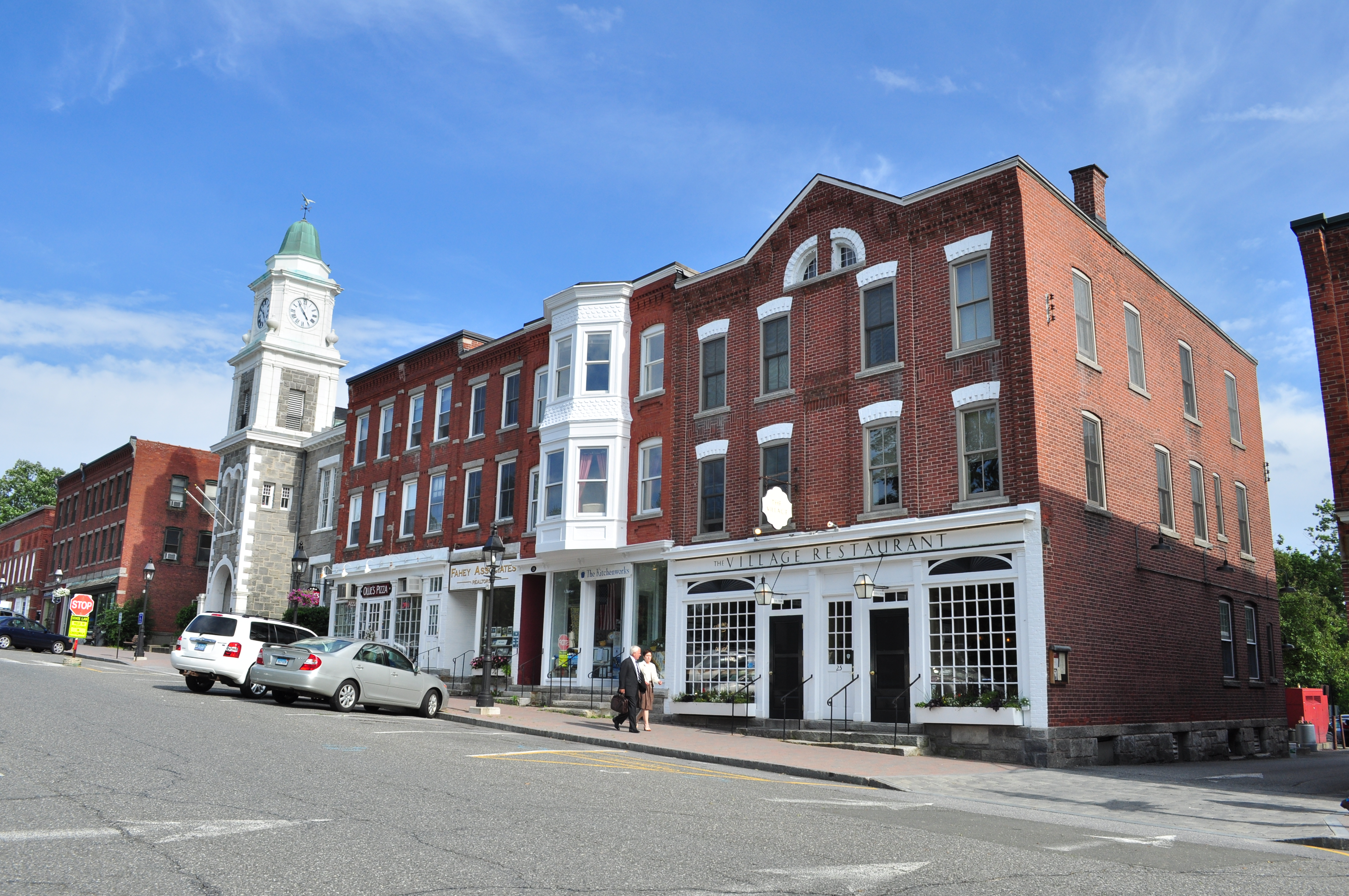 Buildings on West Street, Litchfield, Connecticut, facing the Litchfield Green on the side opposite U.S. 202.